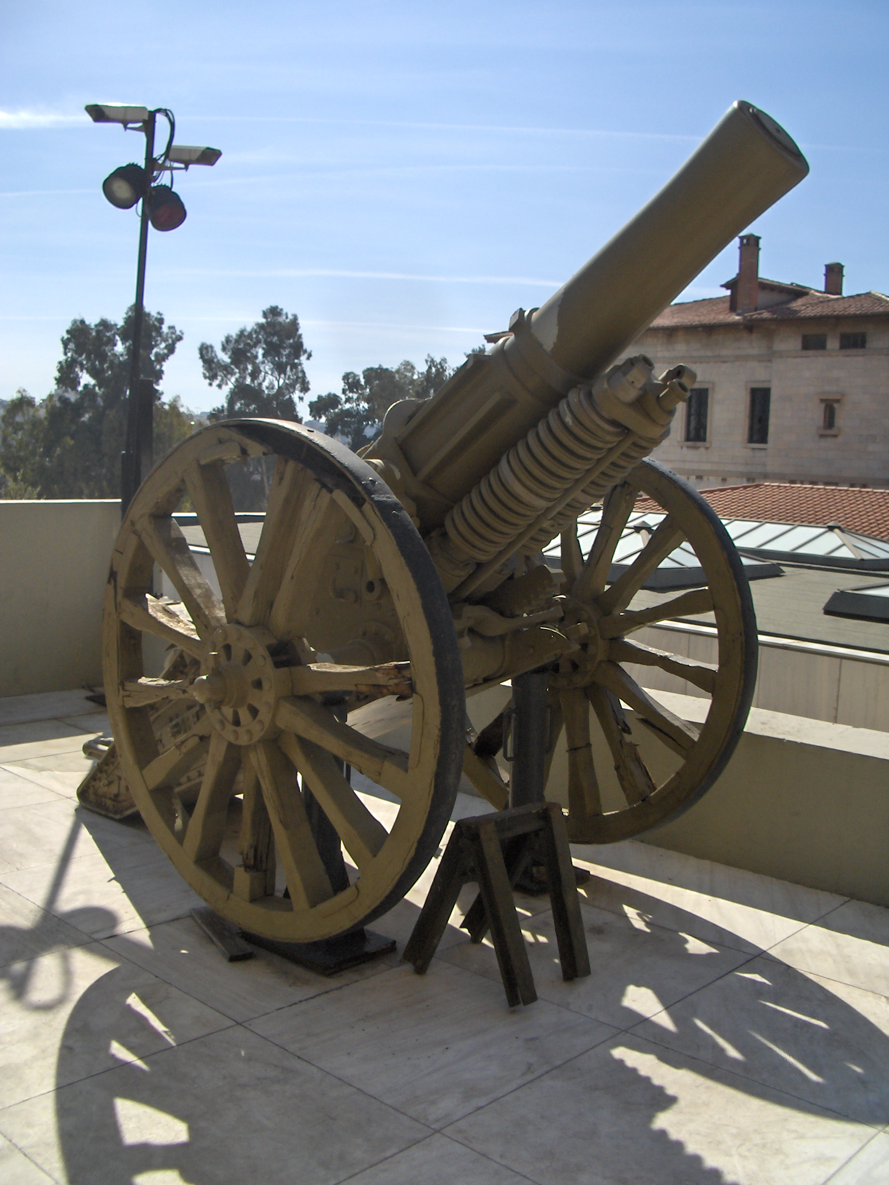 Exhibit at the War Museum in Athens. Armstrong 30cwt 6in howitzer